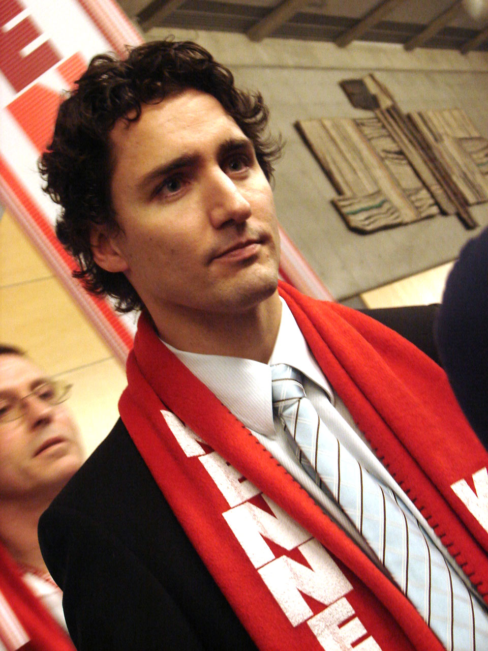 Justin Trudeau at the 2006 Liberal leadership convention.